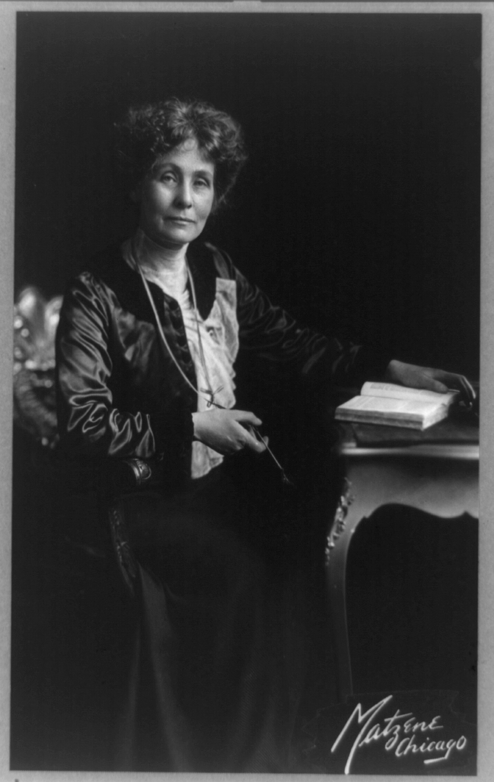 Emmeline (Goulden) Pankhurst, 1858-1929, 3/4 lgth., seated at table, facing slightly right.